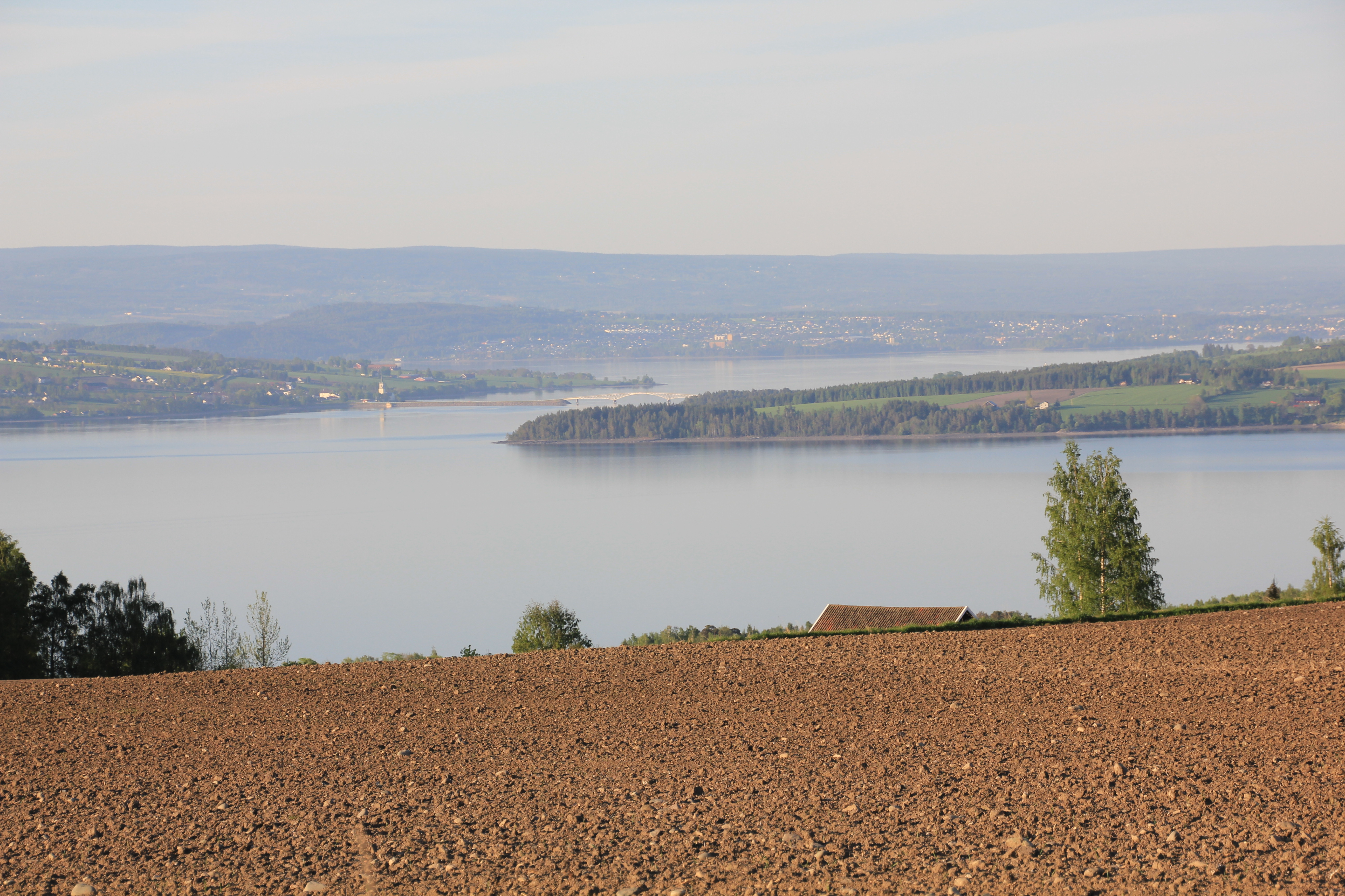 Lake Mjøsa and the bridge going from Nes to Helgøya island in the middle/left of the picture. The town Hamar in the background. The picture is taken from Tømmerholshøgda, Østre Toten, Oppland, Norway. Mjøsa, Nes og Helgøya sett fra Tømmerholshøgda på Østre Toten.